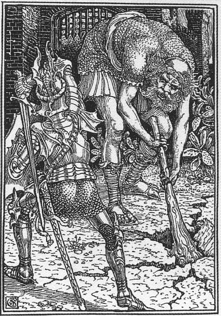 "King Arthur and the Giant", Book I, Canto VIII. Engraving.